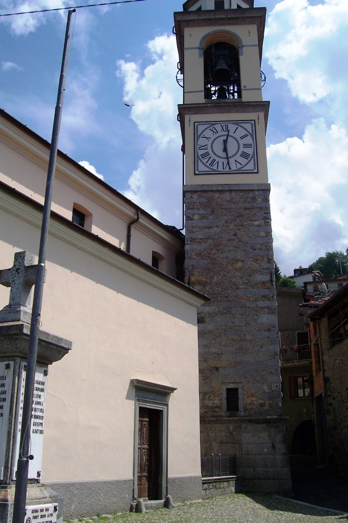 Towerbell of the Church of Santa Maria Assunta. Cimbergo, Val Camonica